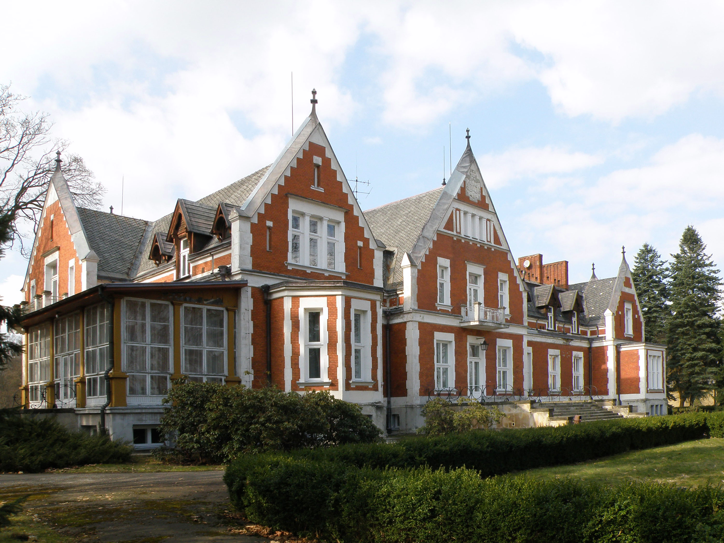 Poland, Radziwills’ Palace in Jadwisin